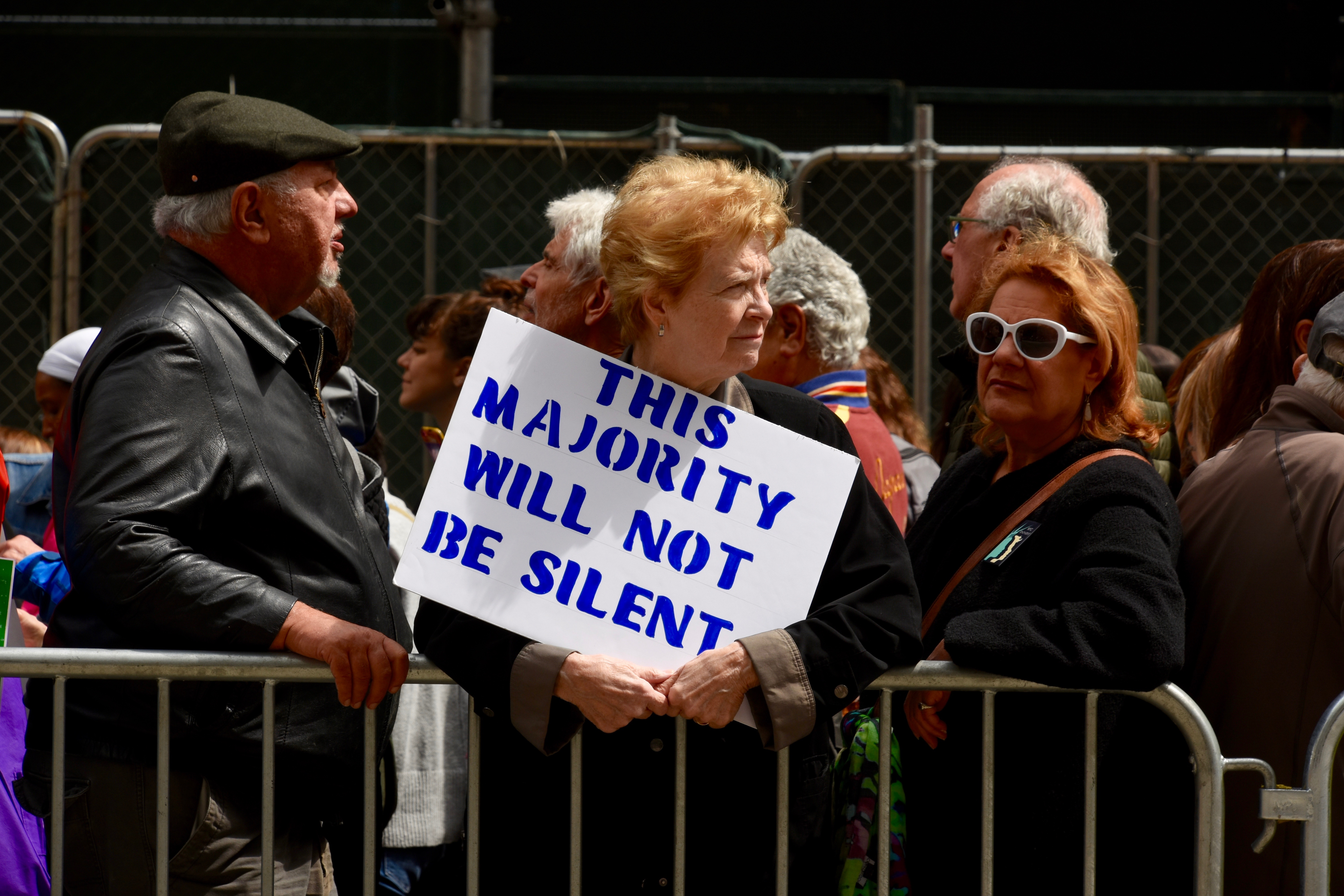 This majority will not be silent